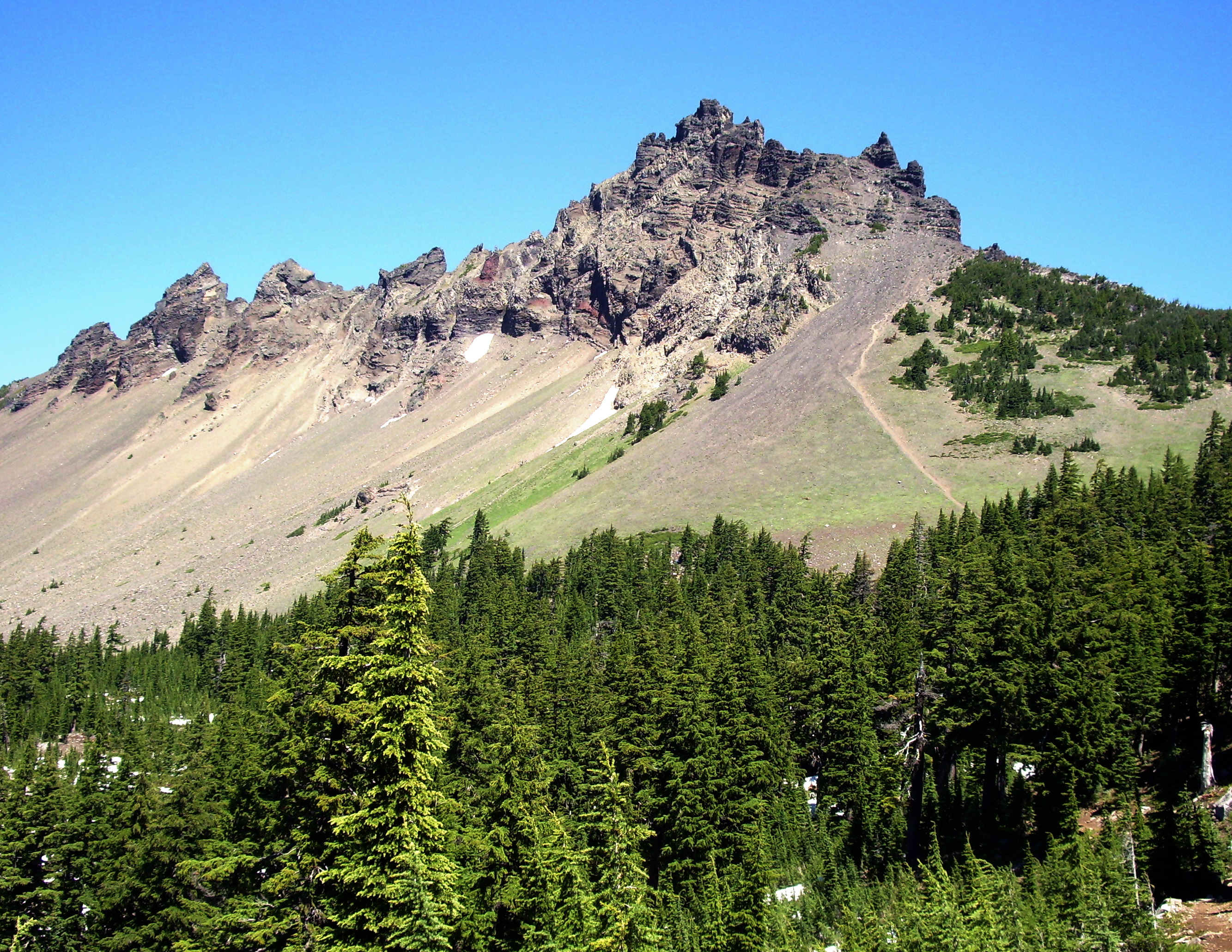 Three Fingered Jack seen from the southwest. This photo was taken on the Pacific Crest Trail in Mount Jefferson Wilderness where the trail straddles Deschutes National Forest and Willamette National Forest. Due to unusually heavy wintertime snow accumulation in 2007–2008, this portion was still closed (despite the late season) to through-hiking due to extensive portions still covered by packed snow; some snow patches are visible in the trees. Foreground trees are Tsuga mertensiana.